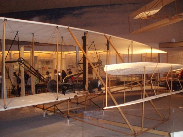 Photo of the Wright Flyer model at the Air and Space Museum